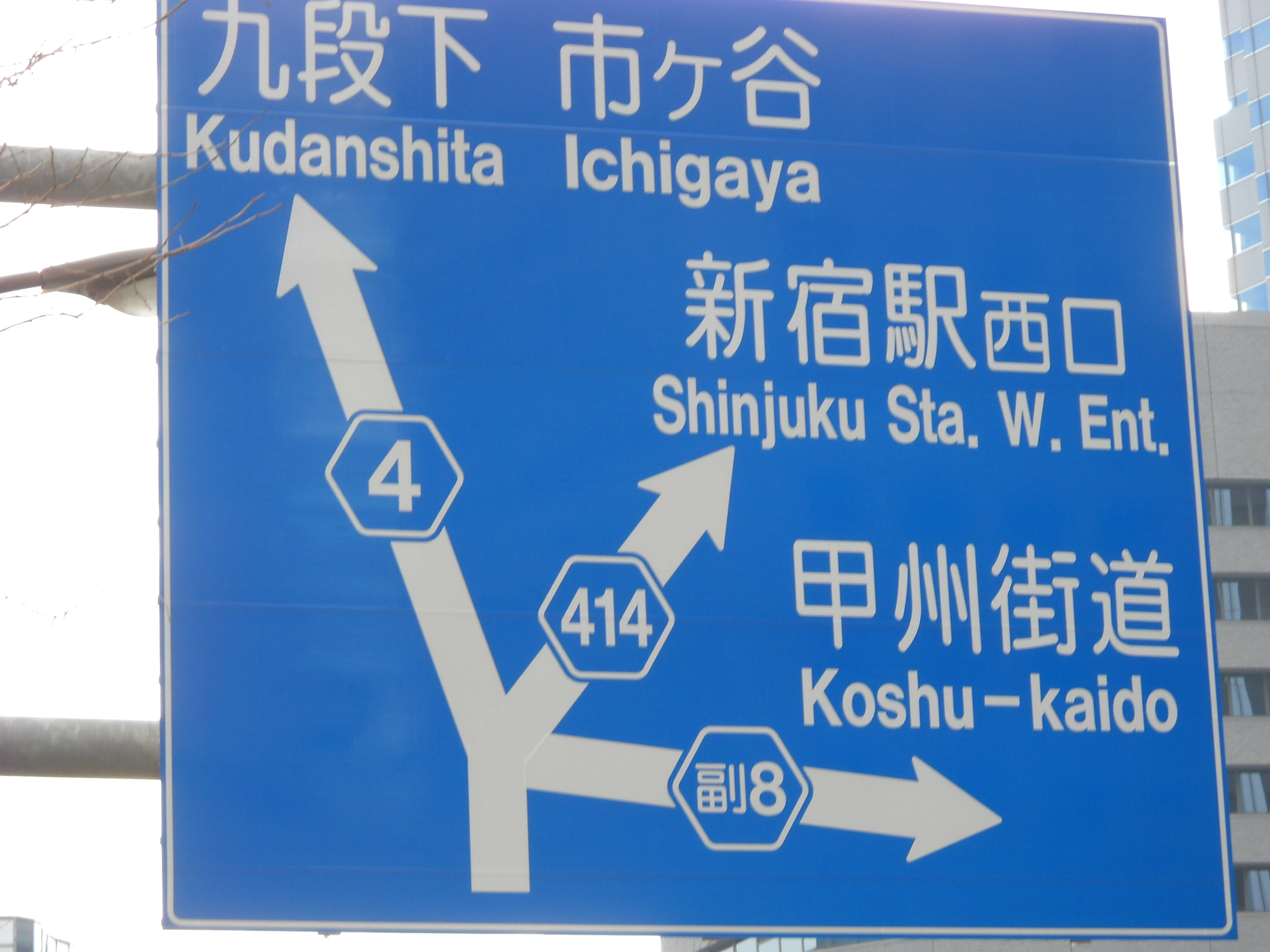 Infomation of Shintoshin-hodokyo-shita, shinjuku-ku, Tokyo, Japan